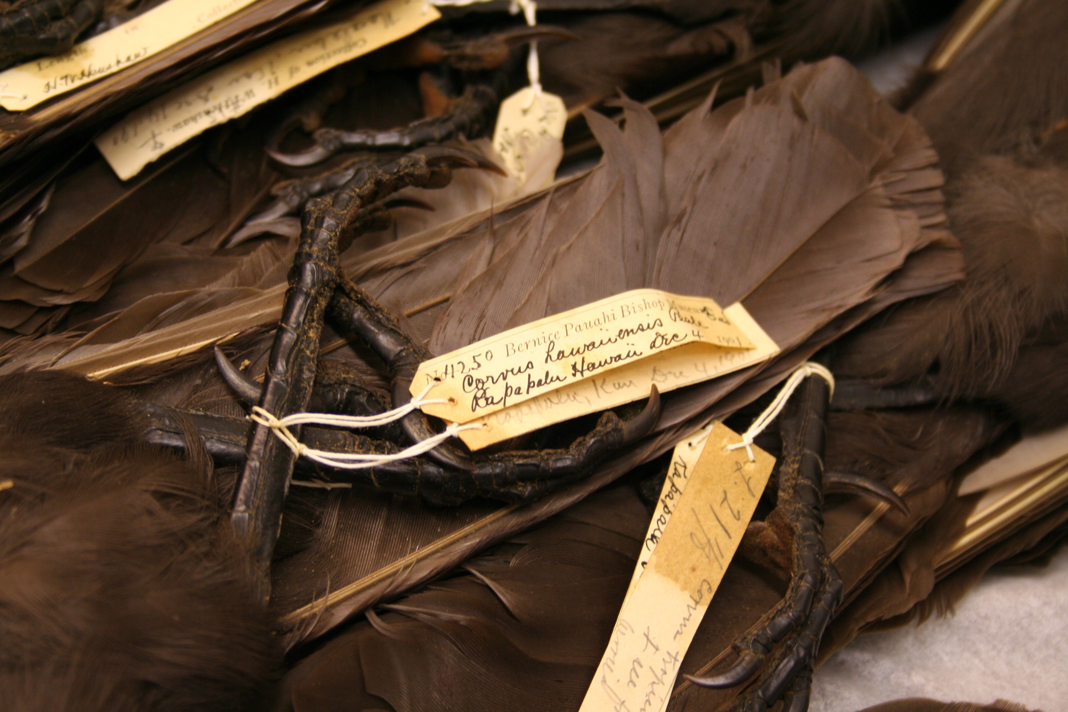 Bishop Museum's Vertebrate Zoology Collection.